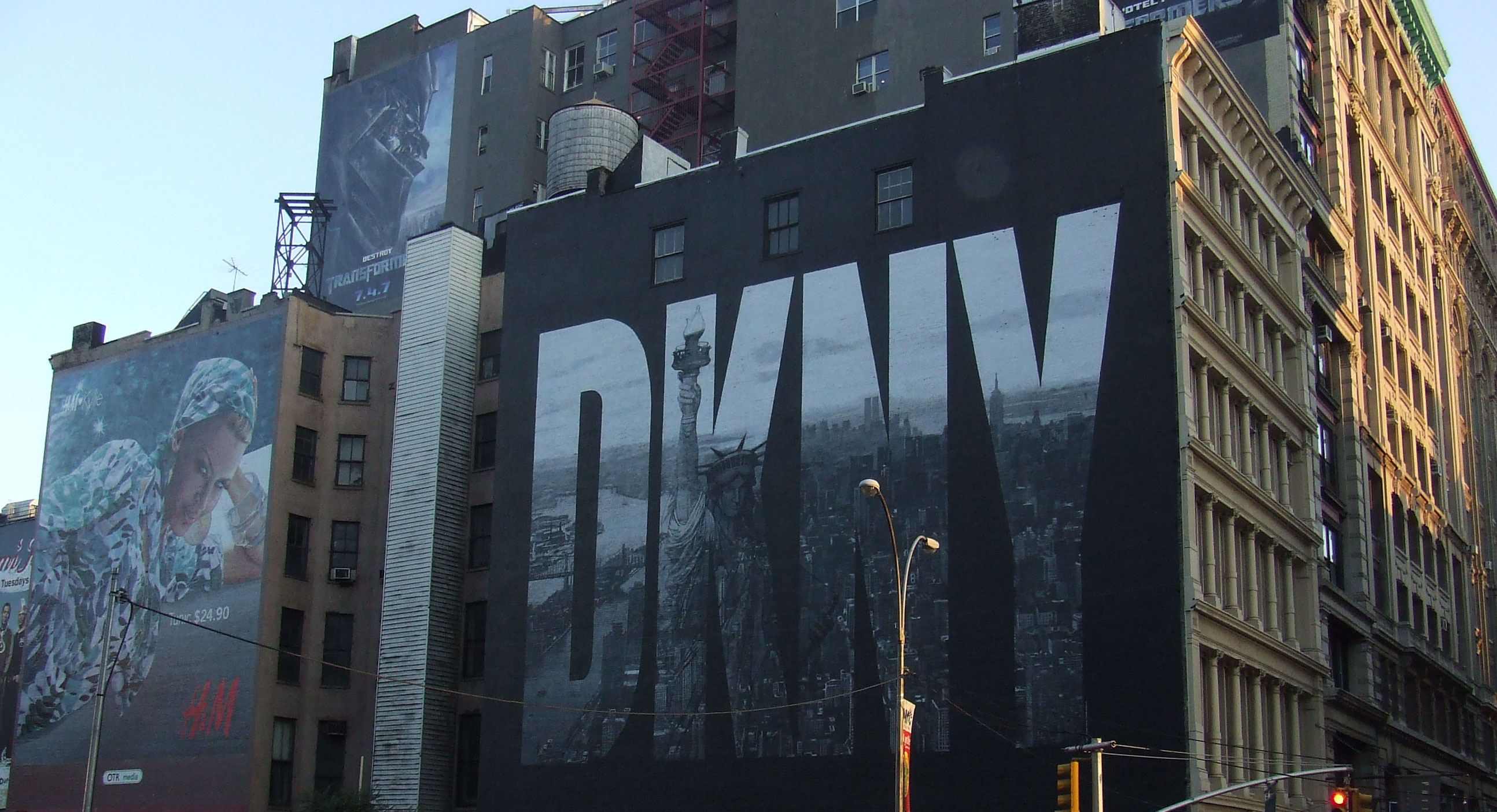 Houston Street, New_York_City_Detail